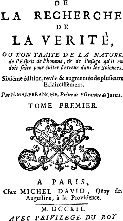 Title page of Concerning the Search after Truth. In which is treated the nature of the human mind and the use that must be made of it to avoid error in the sciences (1674-75) by Nicolas Malebranche (1638-1715).